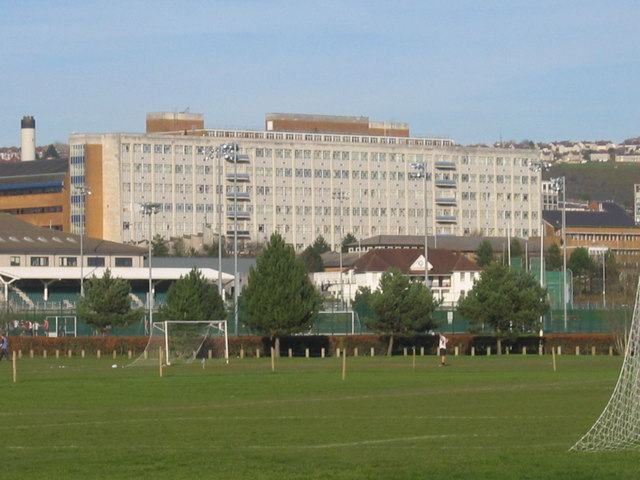 Singleton Hospital Viewed from across public and University playing fields is the main front of Singleton Hospital affording superb views out across Swansea Bay and the Bristol Channel.